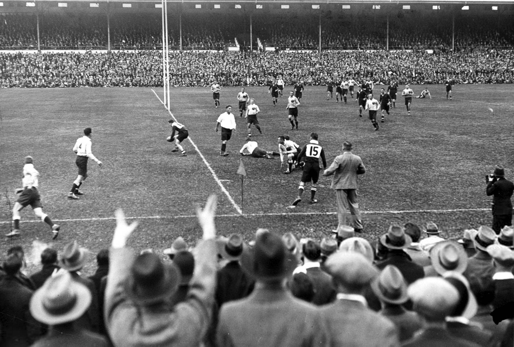 The first test, South Africa v Australia, during the Wallabies tour of SA and Rhodesia. Danie Craven scoring a try for SA.